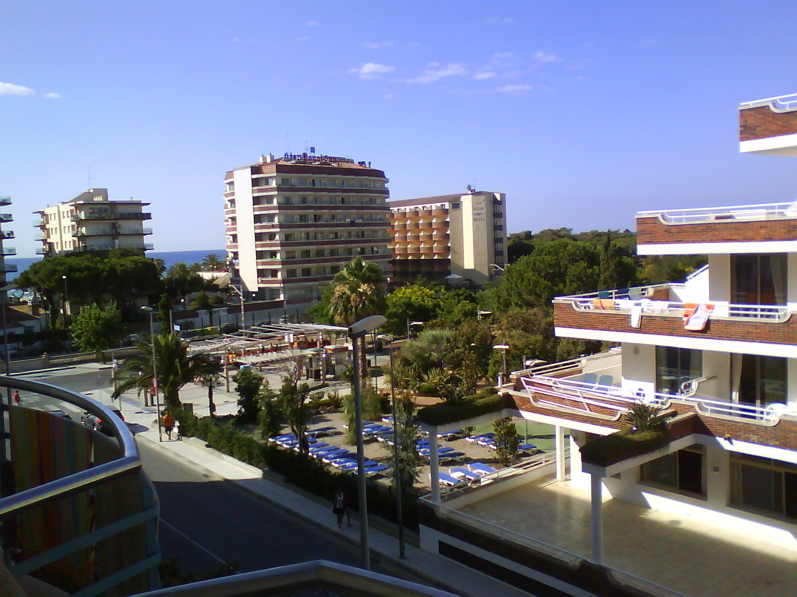 Santa Susanna - Spain - Catalonia